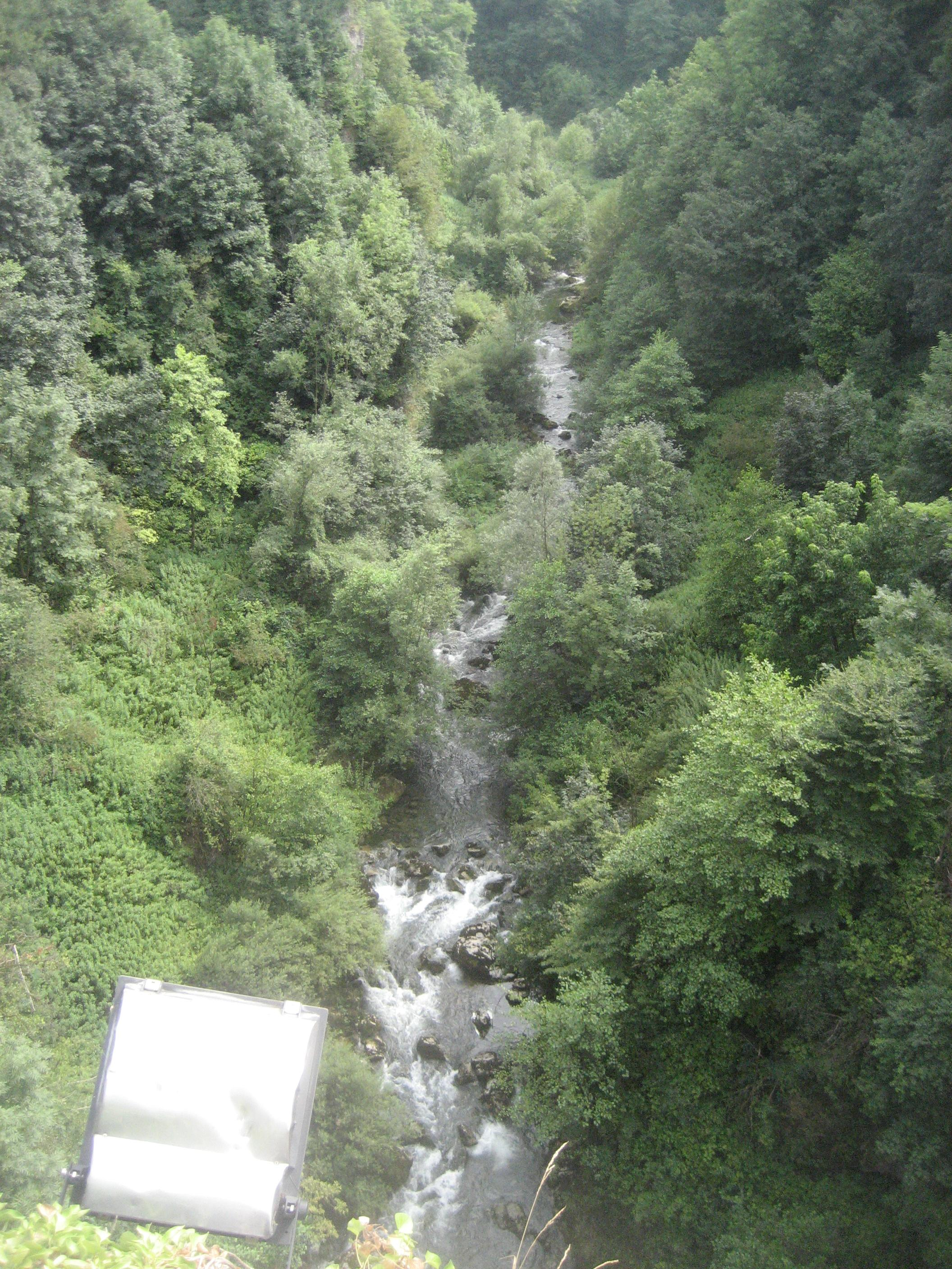 Canyon Đulin ponor